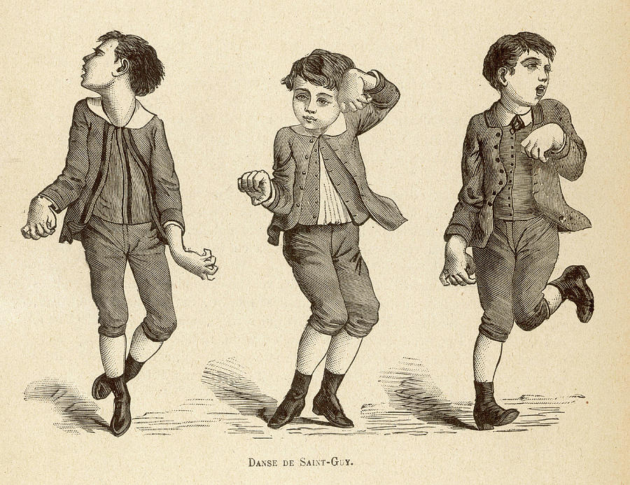 Drawing of boys afflicted with rheumatic chorea.